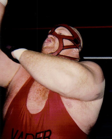 Vader at a WWF event in 1996